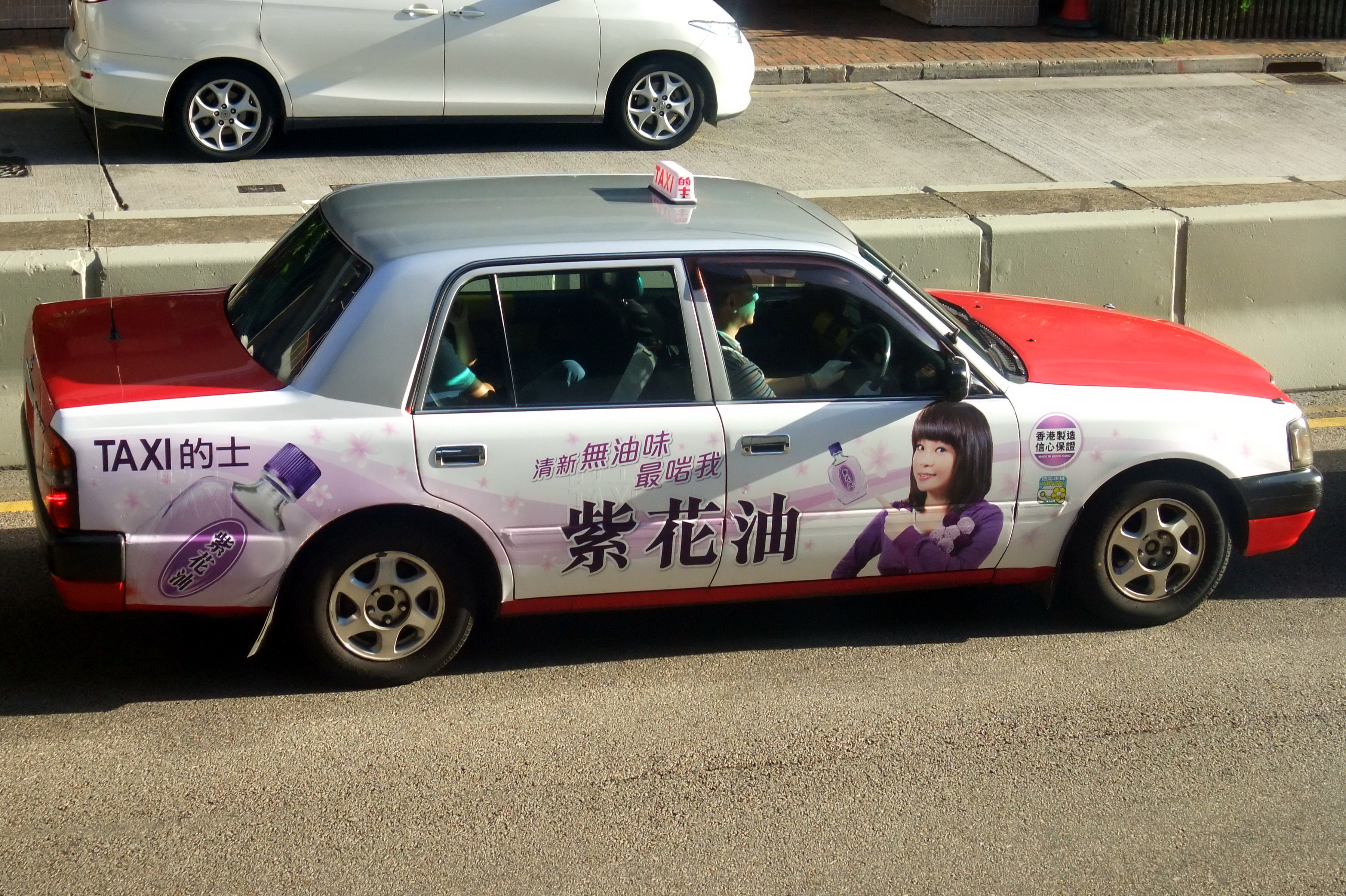 A Hong Kong taxi with Wah Sing Zihua Embrocation ads